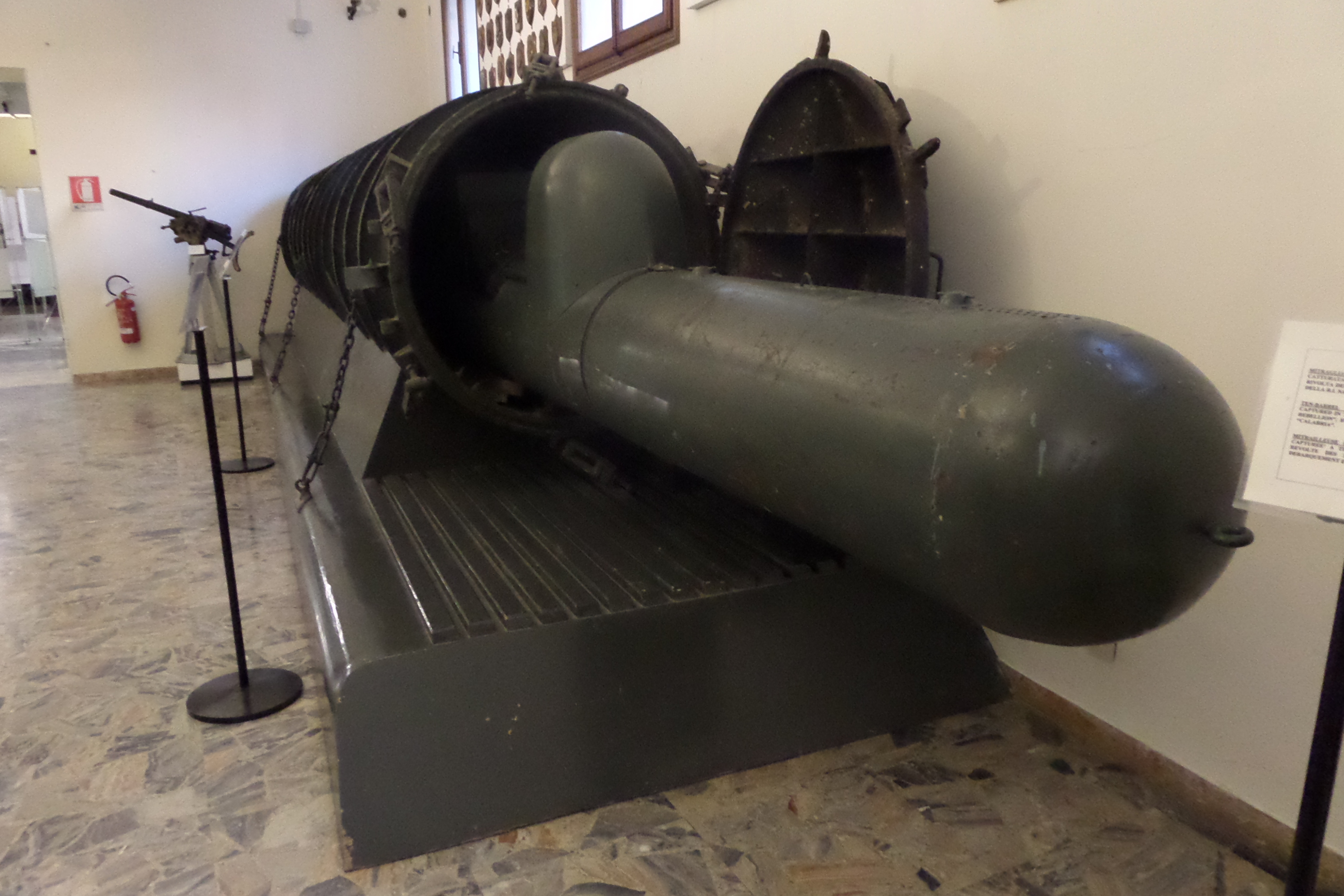 Waterproof container for SLC Assault Craft - also known as maiale (Italian for "pig"). From WWII period. The container could be attached to the deck of a submarine so that a attack could be made without being seen. In the Naval Museum (Museo storico navale), Venice.